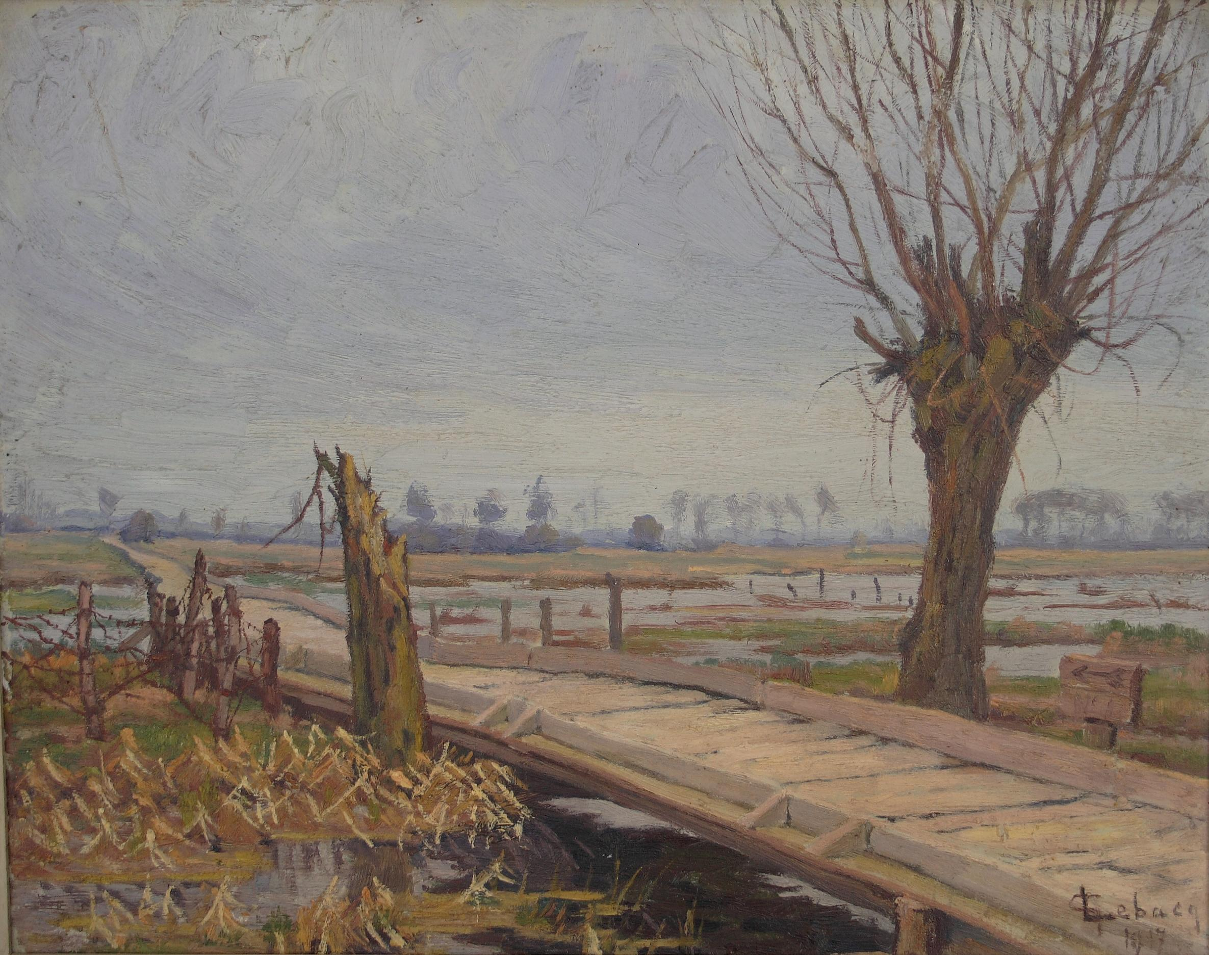 Front in Yser (Flanders) by Georges Emile Lebacq.